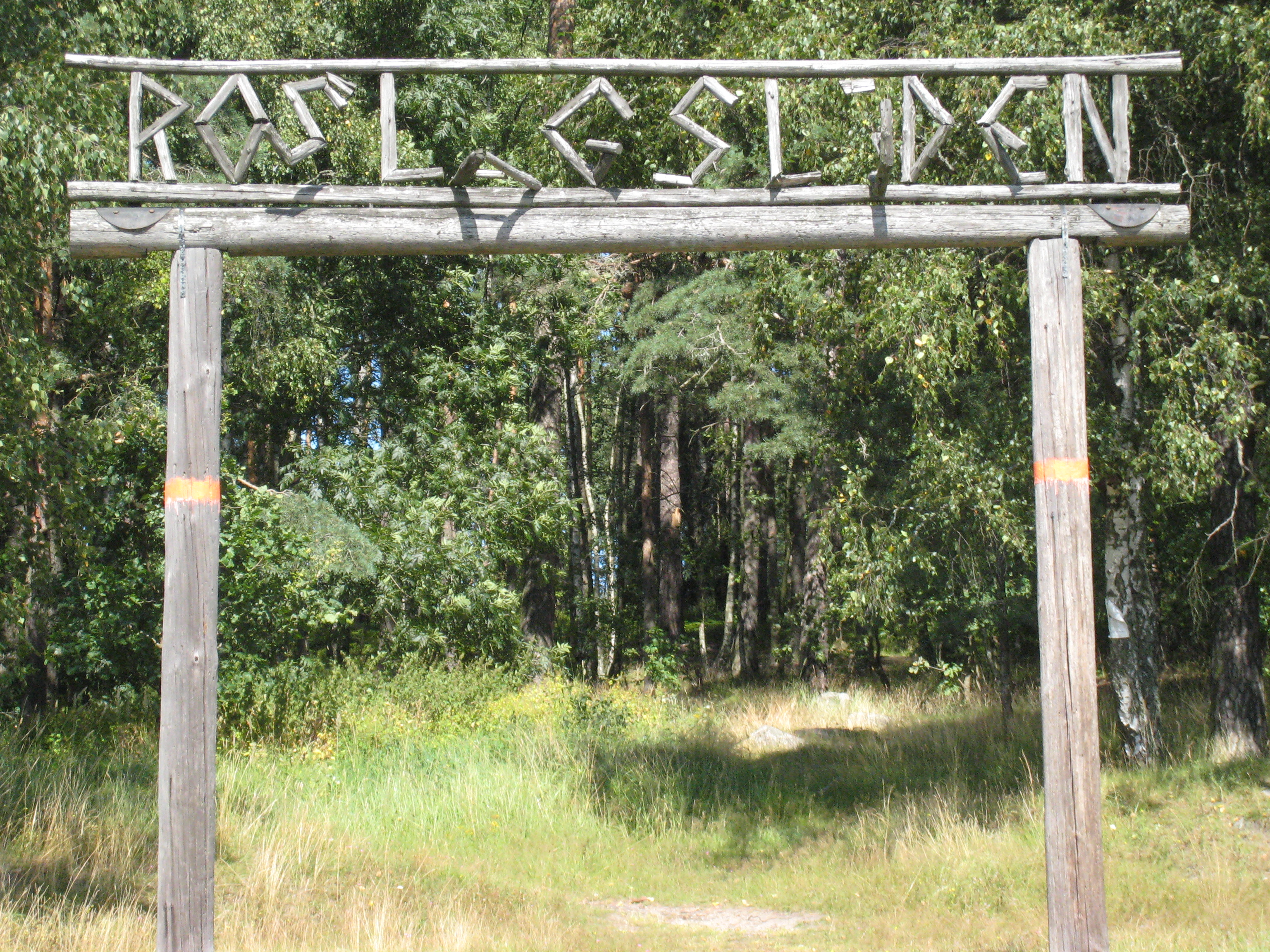 Entrance to walking trail "Roslagsleden" Danderyd, Stockholm county, Sweden